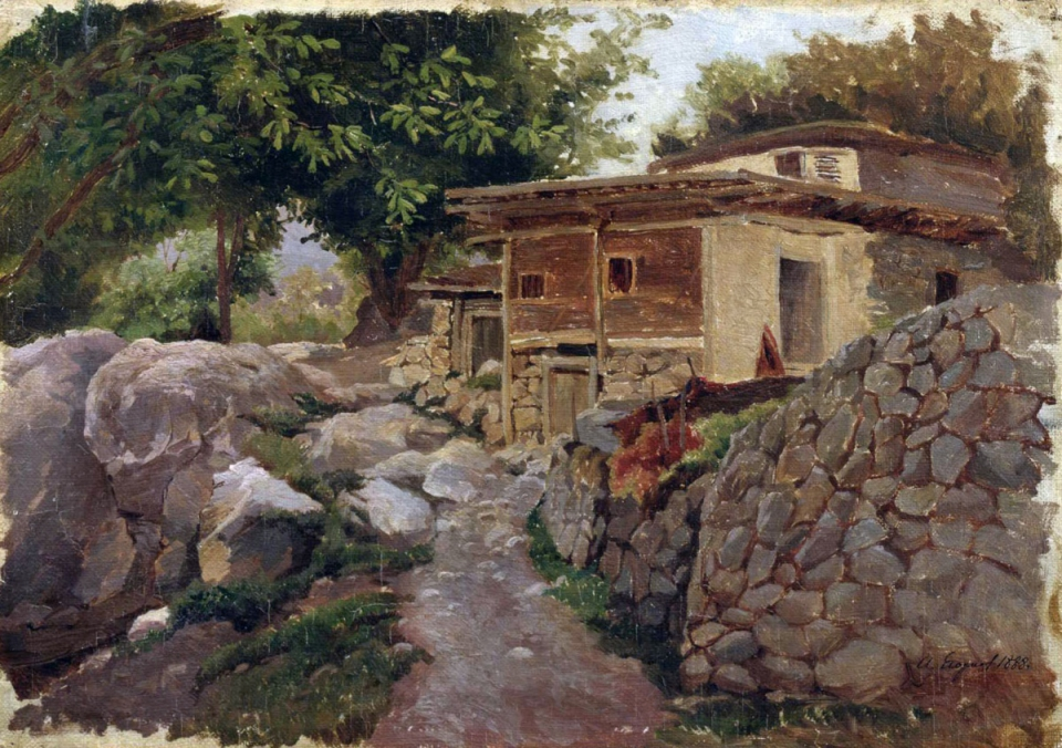 Painter Alexander Semenovich Egornov.